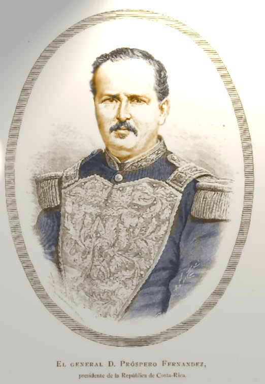 Próspero Fernández, Presidente de Costa Rica en 1883